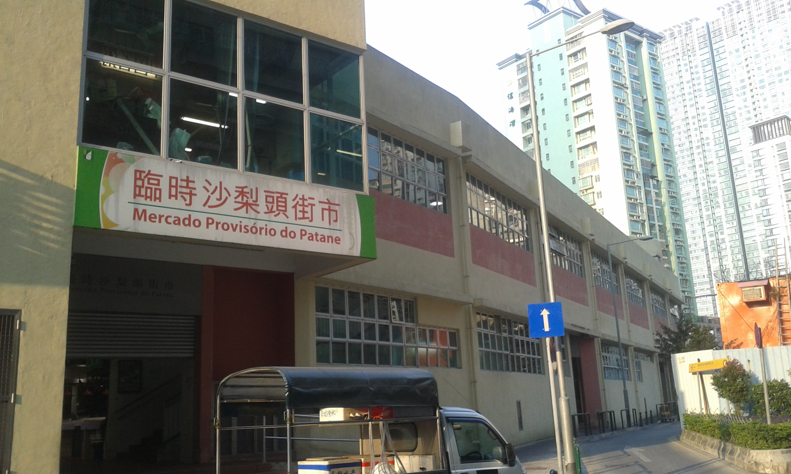 Mercado Municipal do Patane (Temporary) in 2015